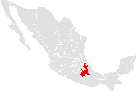 A map of the Mexican state of puebla made by me